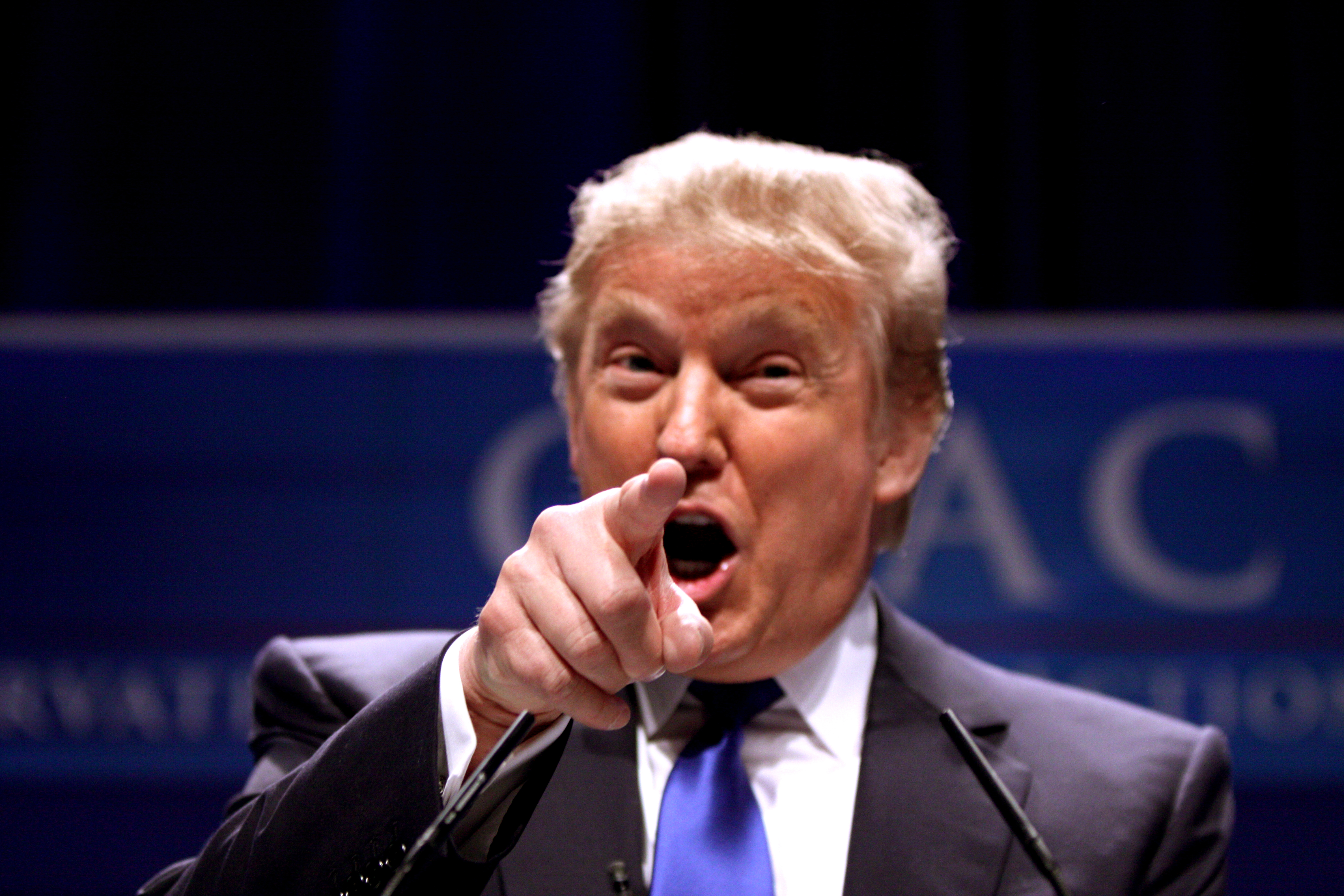 Donald Trump speaking at CPAC 2011 in Washington, D.C.